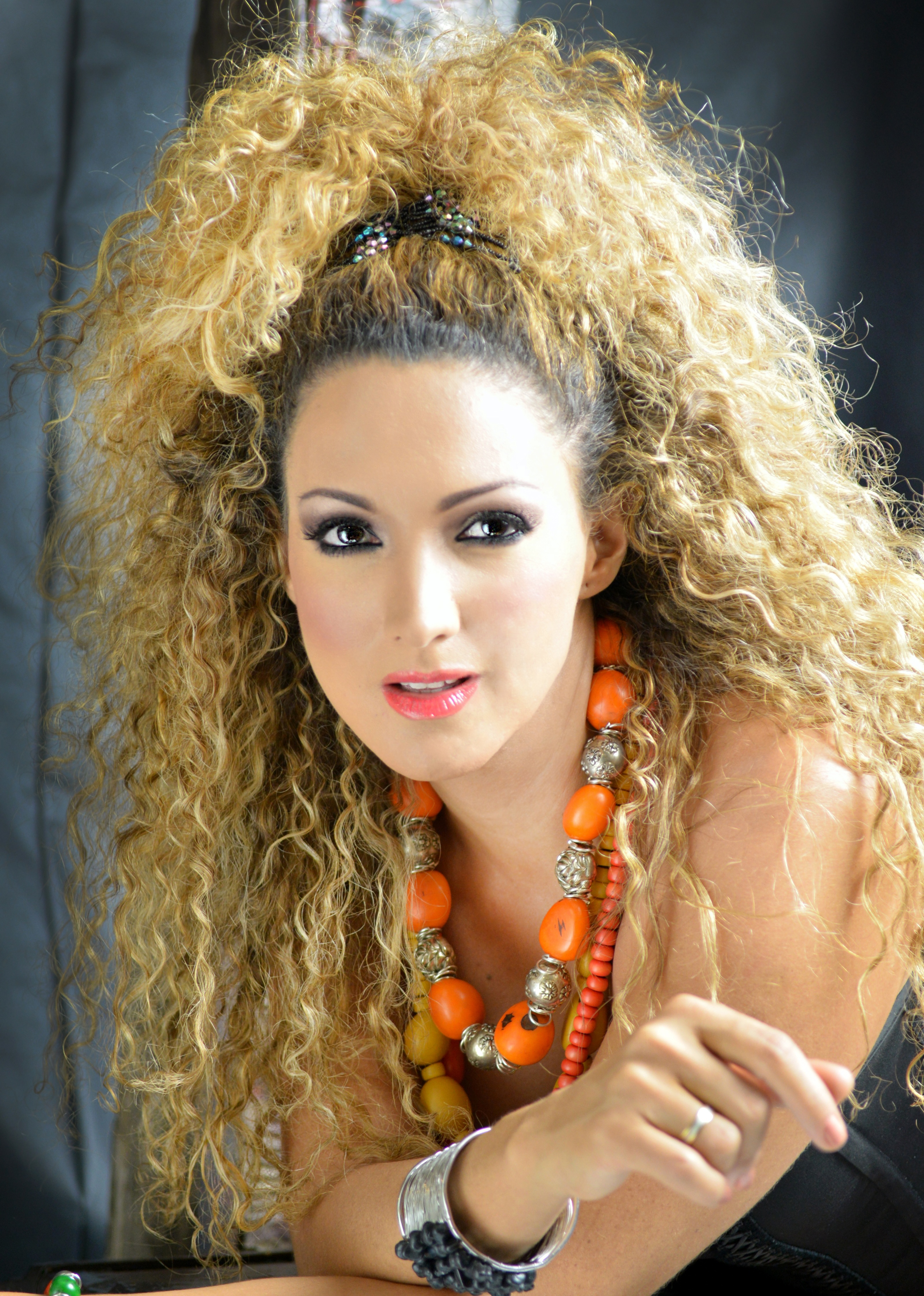 Singer, Songwriter, Actress, Producer.